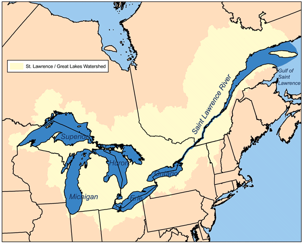 This is a map of the Great Lakes / Saint Lawrence River Watershed in North America. I, Karl Musser, created it based on USGS data. A variant of this map with U.S. counties added is available at Image:Grlakes lawrence map2.png. A SVG version is available at Image:Grlakes_lawrence_map-en.svg.